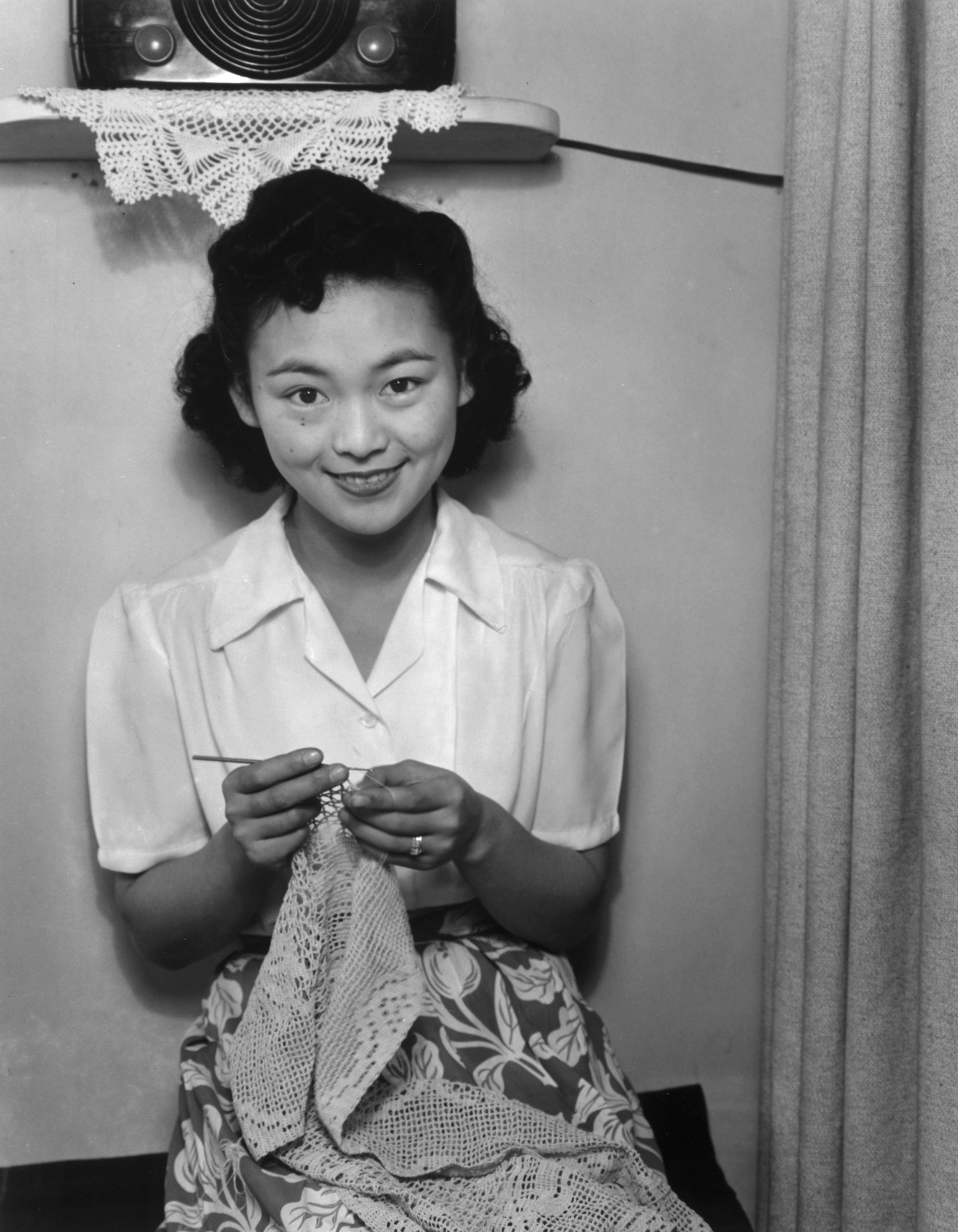 Mrs. Dennis Shimizu, photographed at Manzanar internment camp